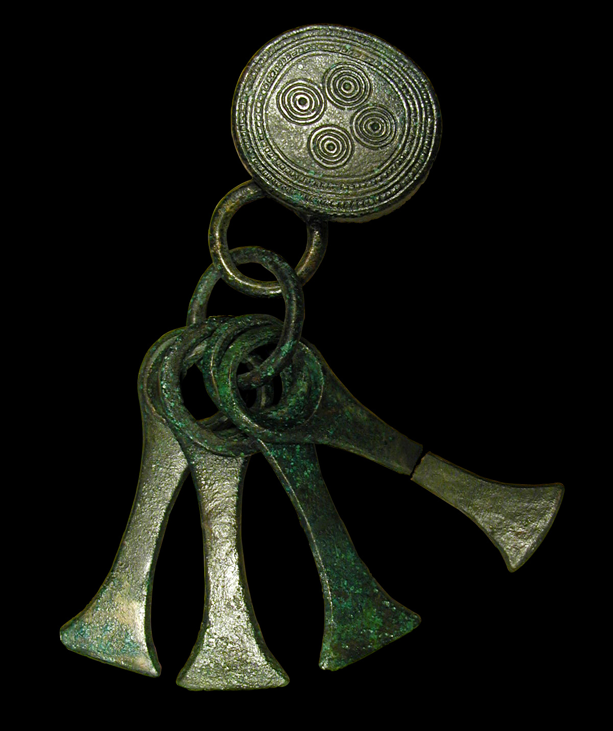 Bronze decoration of the Daensen folding chair